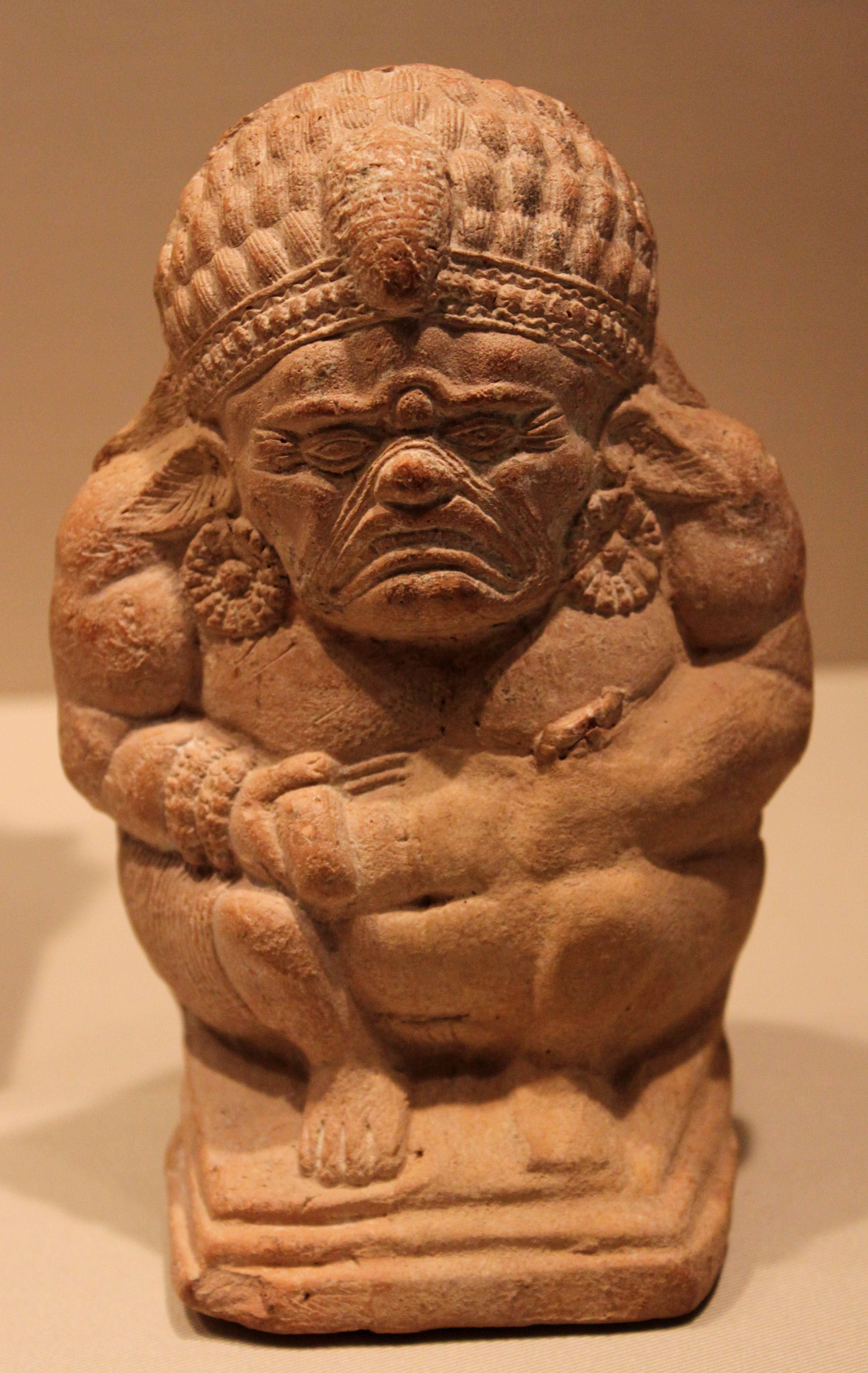 Terracota Yaksha, Sunga period (1st century BC), found in Chandraketugarh (West Bengal) - Metropolitan Museum of Art - New York